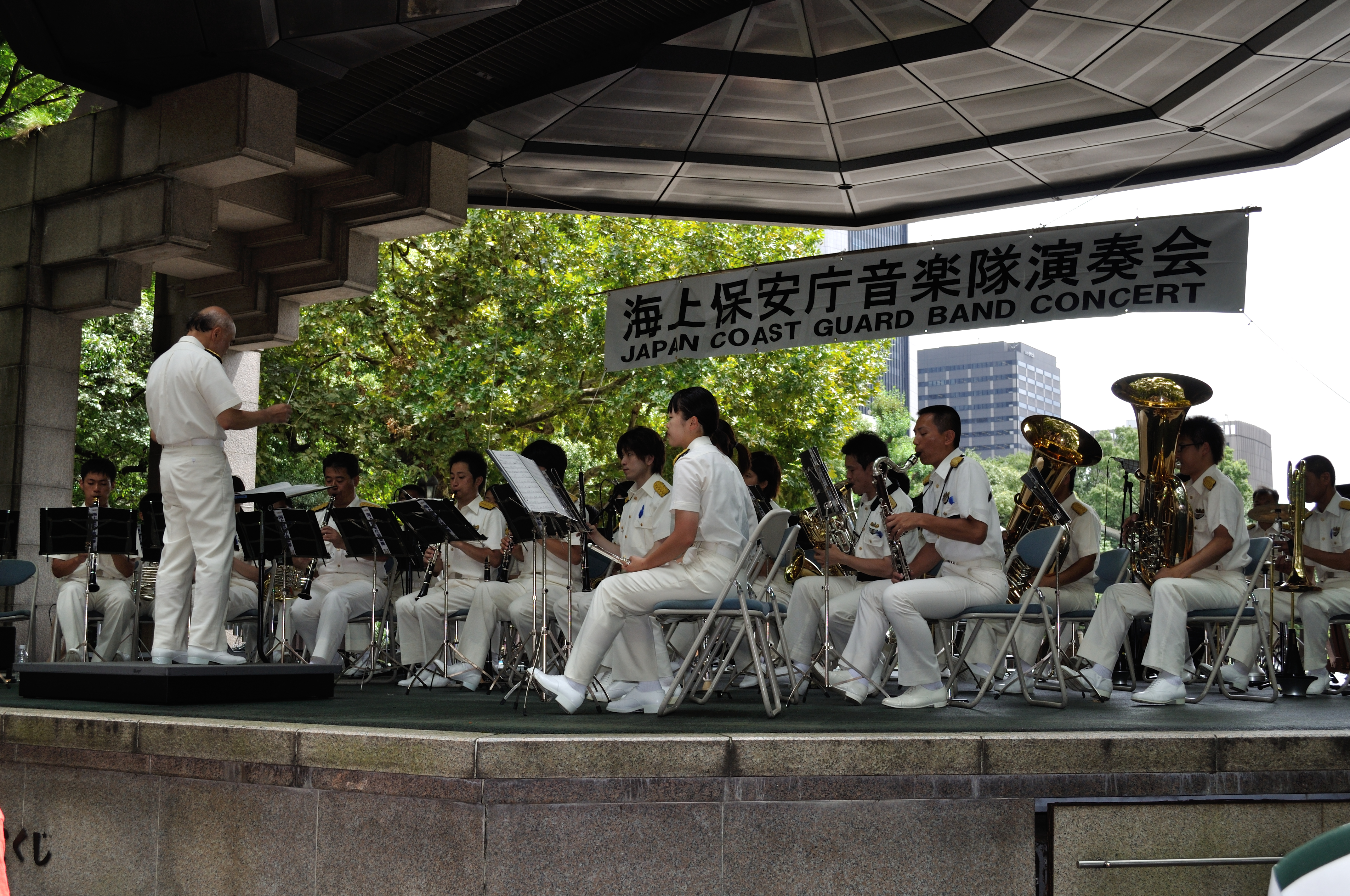 Japan Coast Guard Band playing at Hibiya Park, Tokyo.